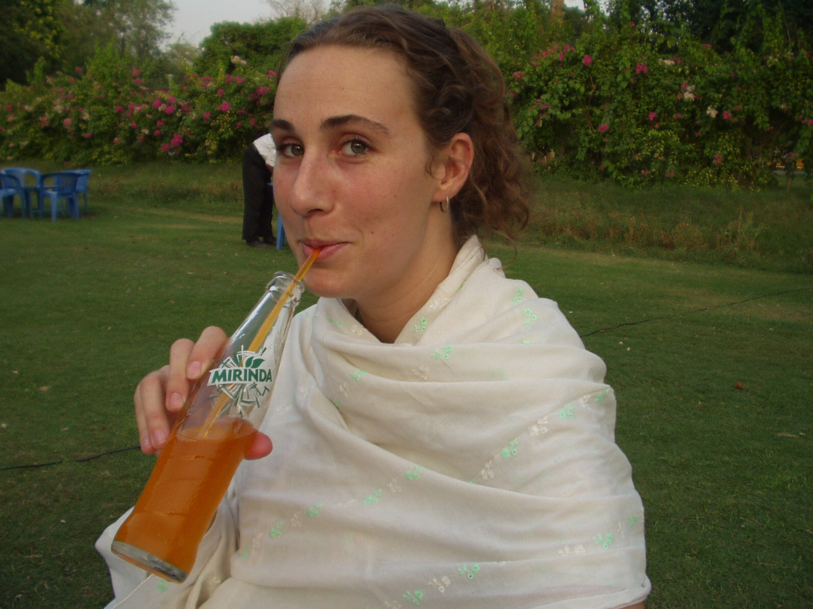 Miranda Kennedy in Lahore, Pakistan in 2004